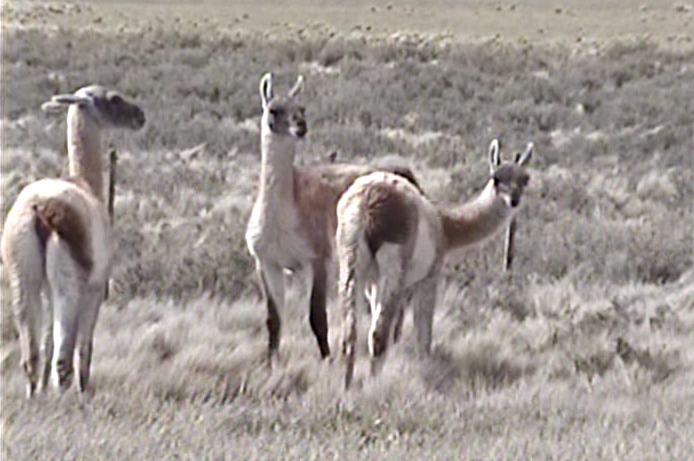 Guanacos (Lama guanicoe guanicoe) in the main island of Tierra del Fuego, Tierra del Fuego Province, in the southern Chilean region of Magallanes and Antártica Chilena.